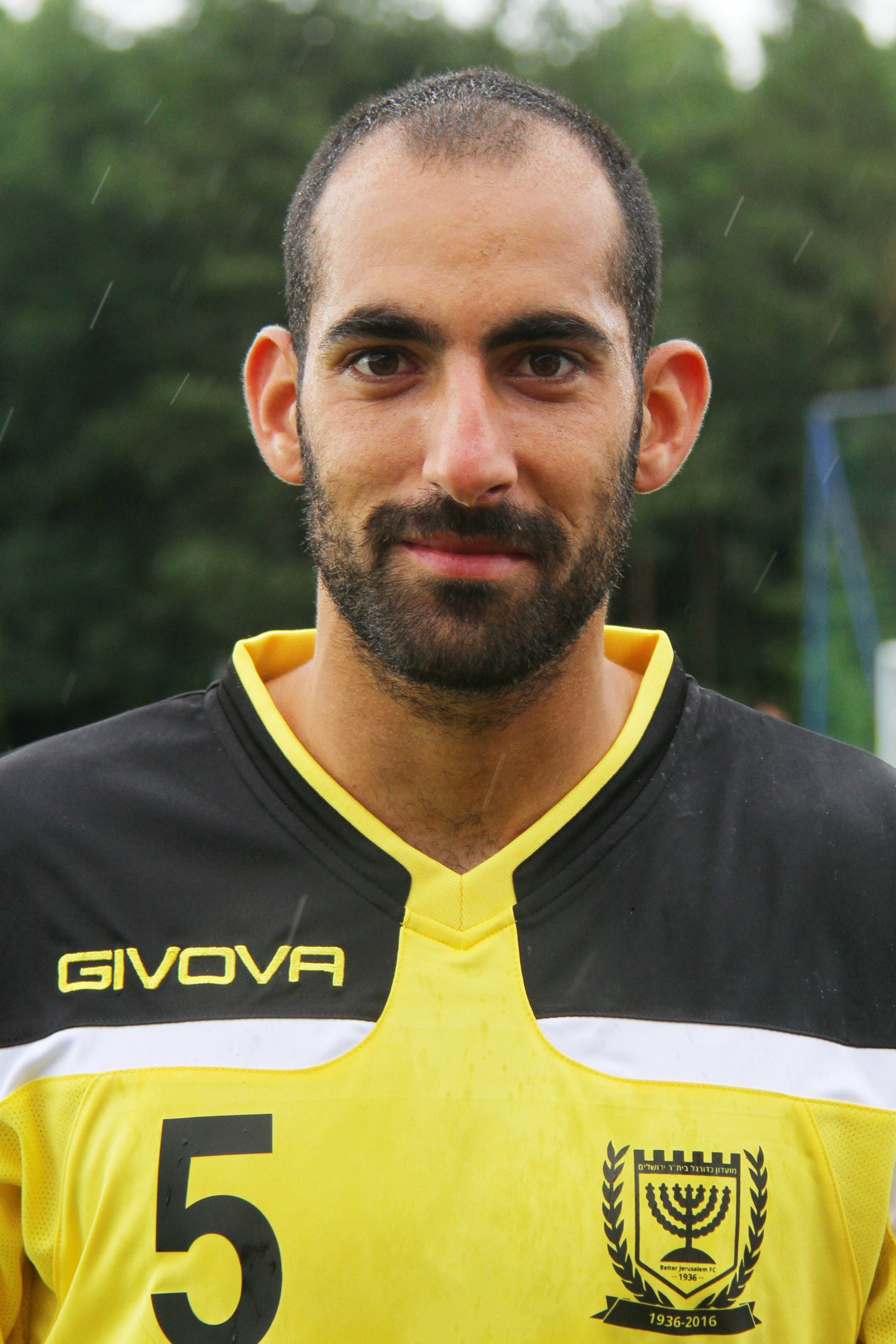 Friendly match between Beitar Jerusalem F.C. (yellow shirts) and MTK Budapest FC (blue shirts) at 2016-06-18 in Bad Erlach (Austria. – The photo shows Dan Mori, Beitar Jerusalem F.C.